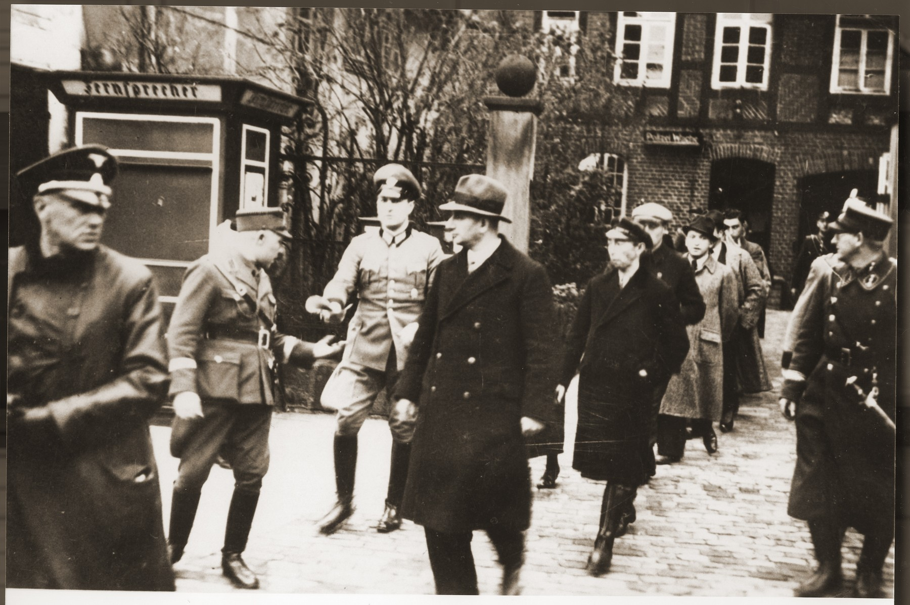 Also pictured are police and SA men